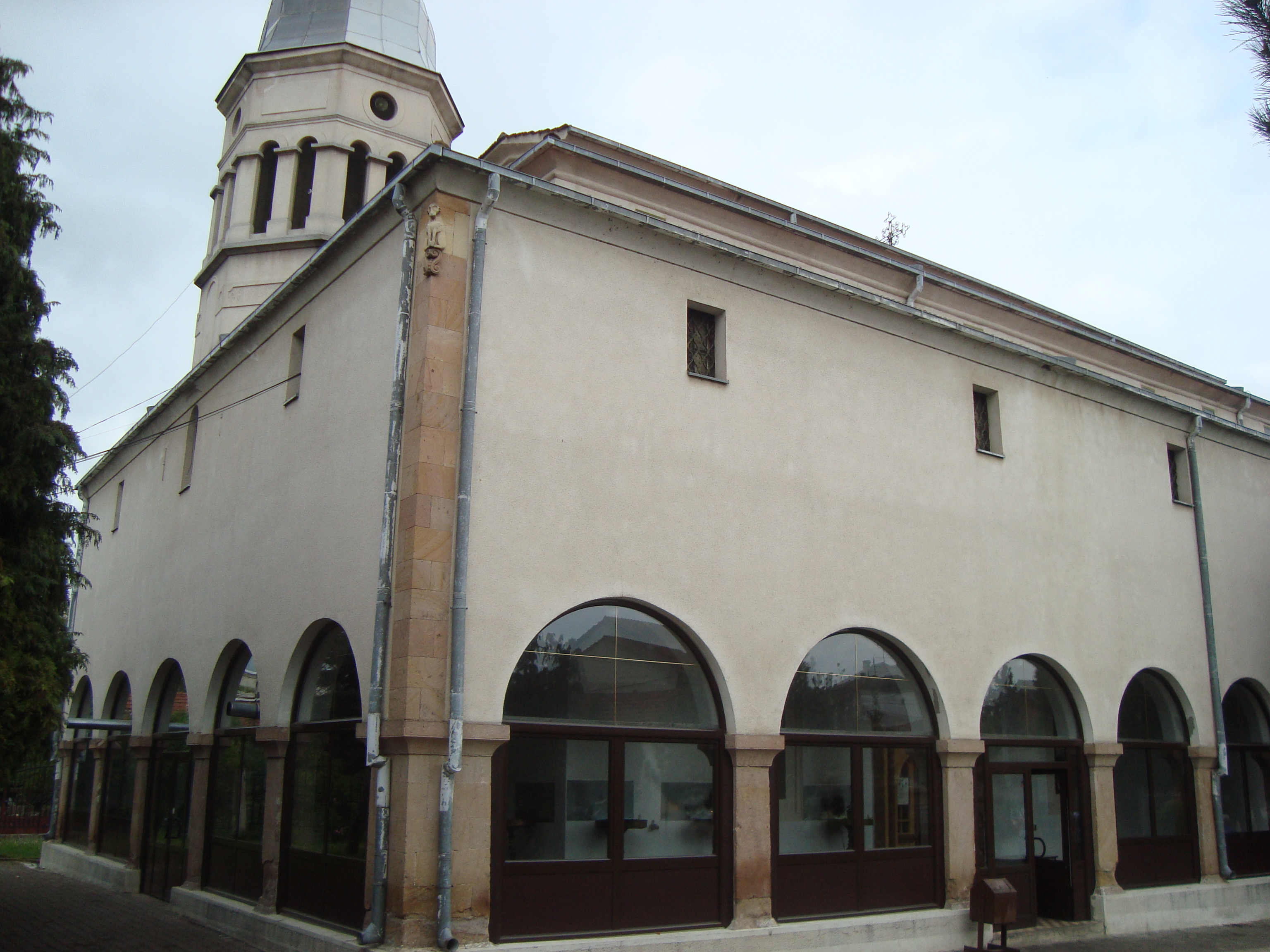 St. Nikola Church, Kumanovo, Macedonia.